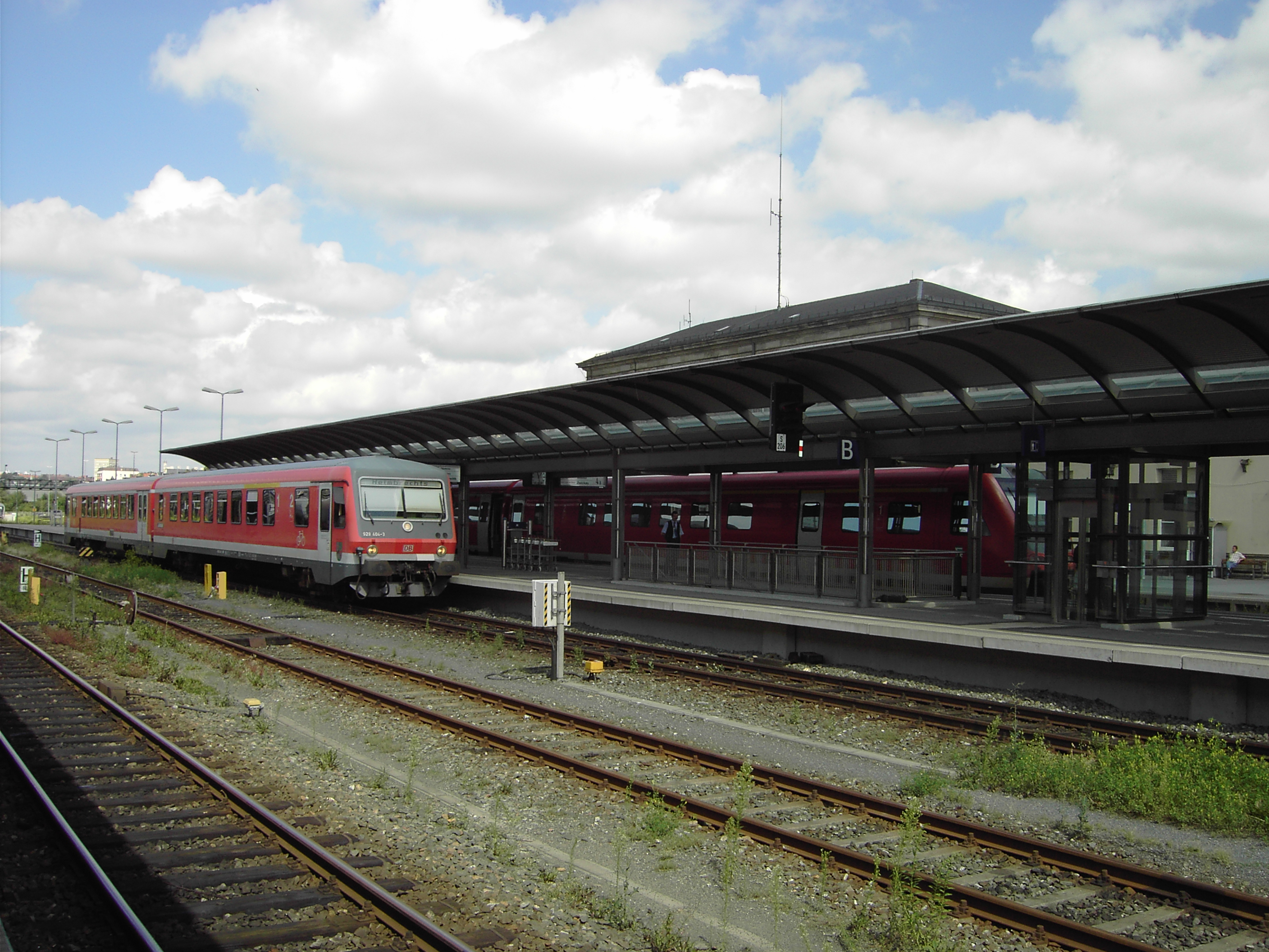 Hof (Saale) main station, platform 6 with VT 628, in the back a VT 612 at platform 4